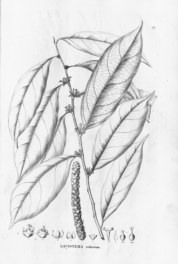 Illustration of Lacistema robustum